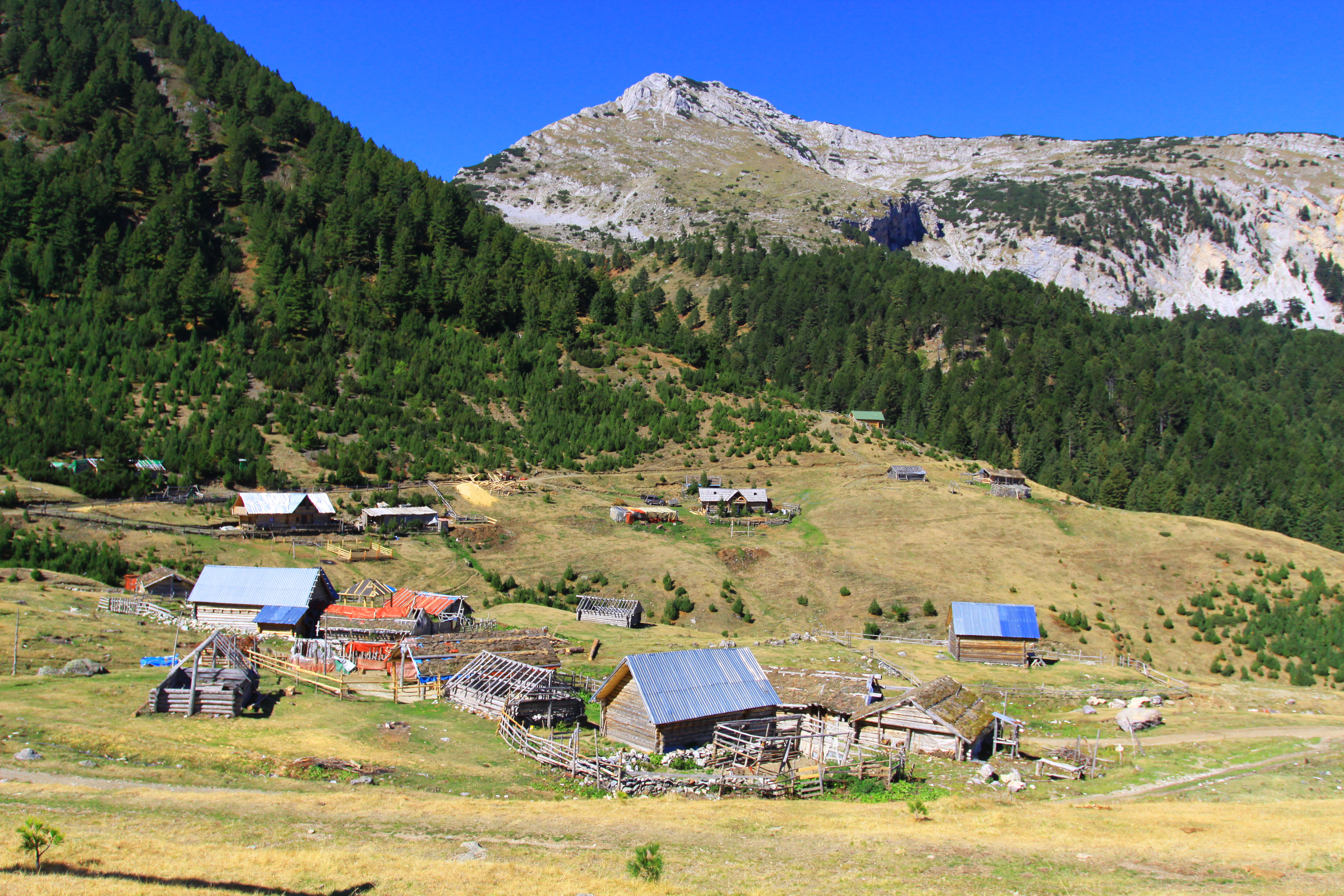 Irzniq mountain huts in Peja mountains